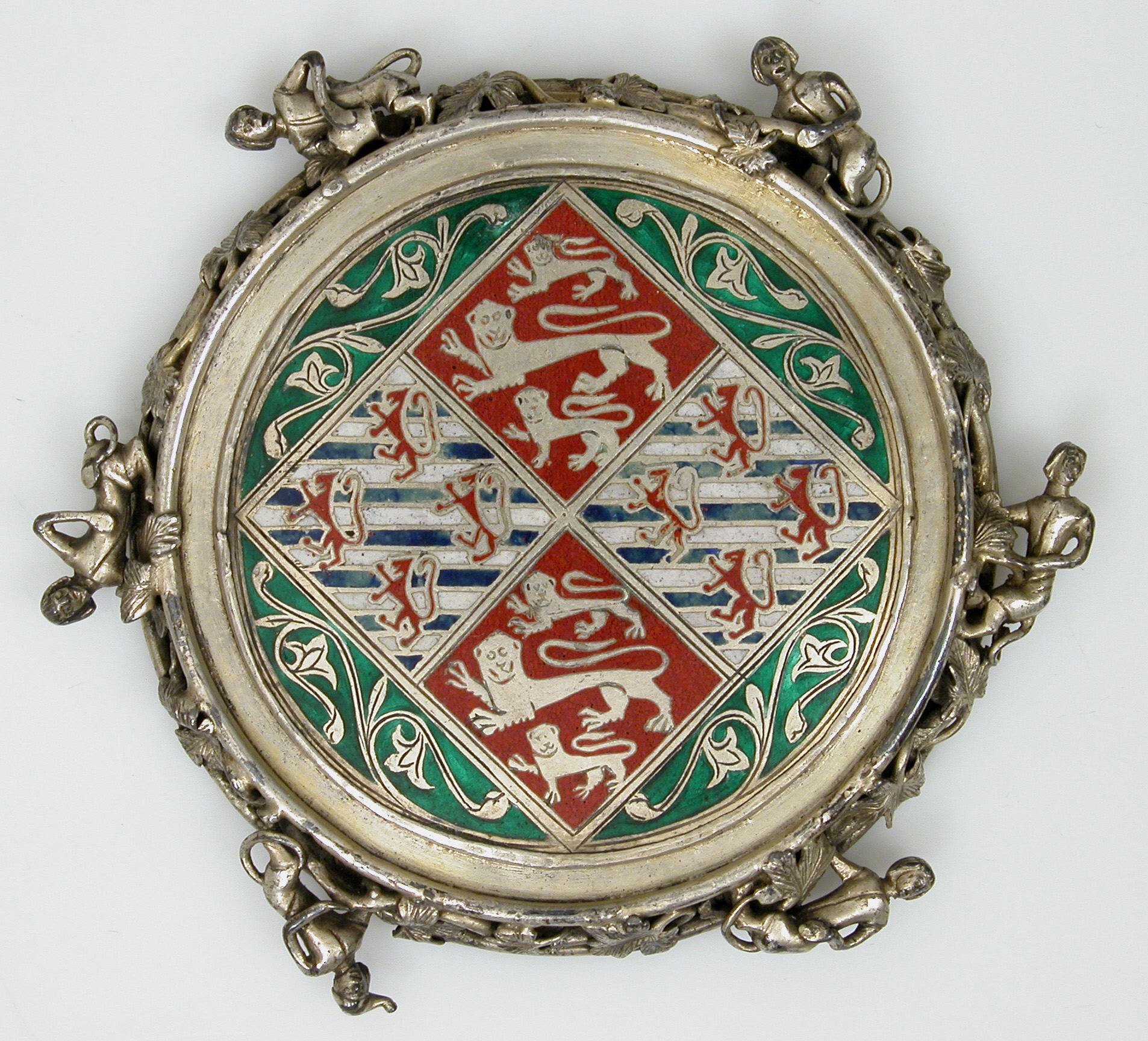 French; Mirror; Enamels-Basse taille